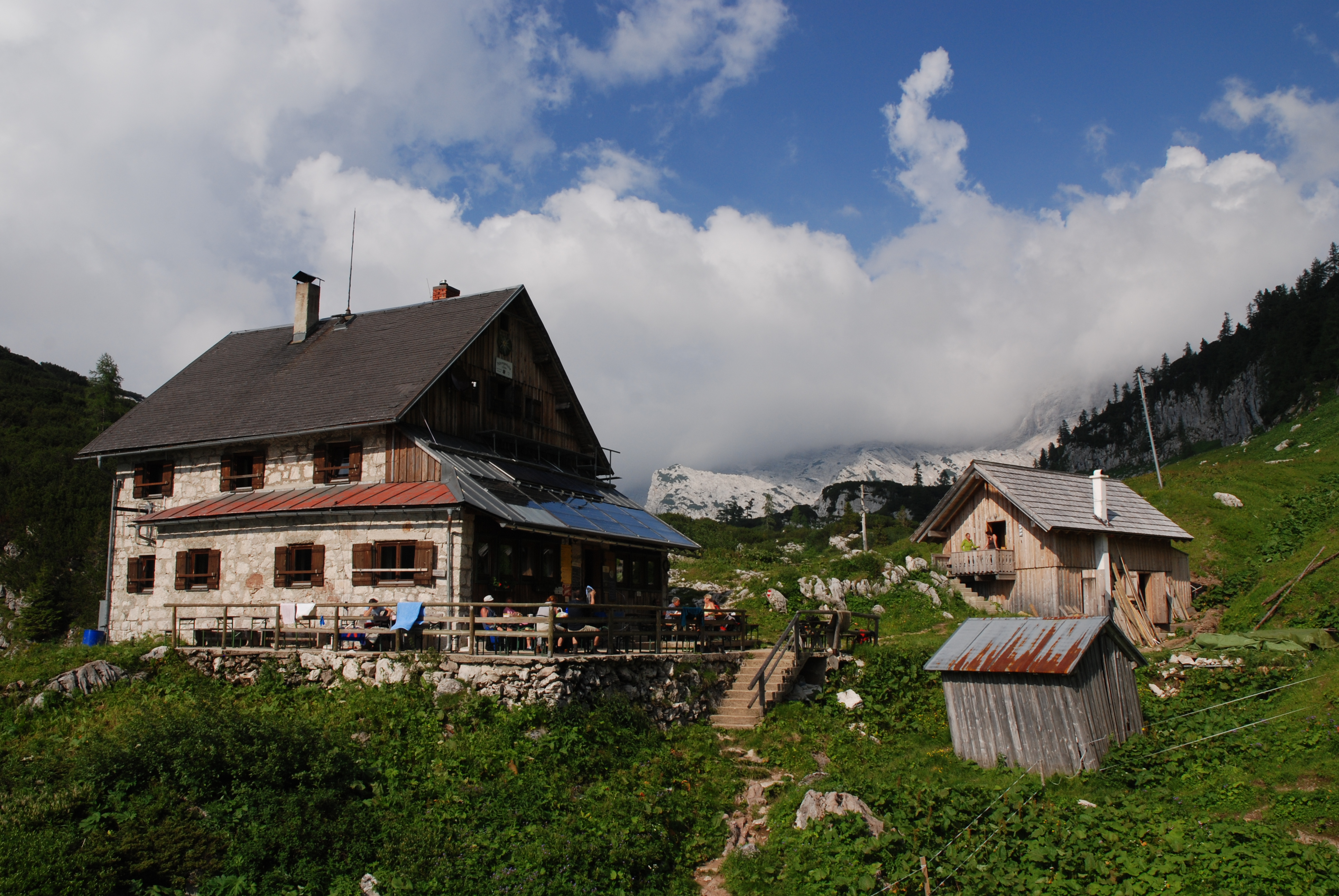 Alpine Hut Pühringer Hütte, Totes Gebirge, Austria